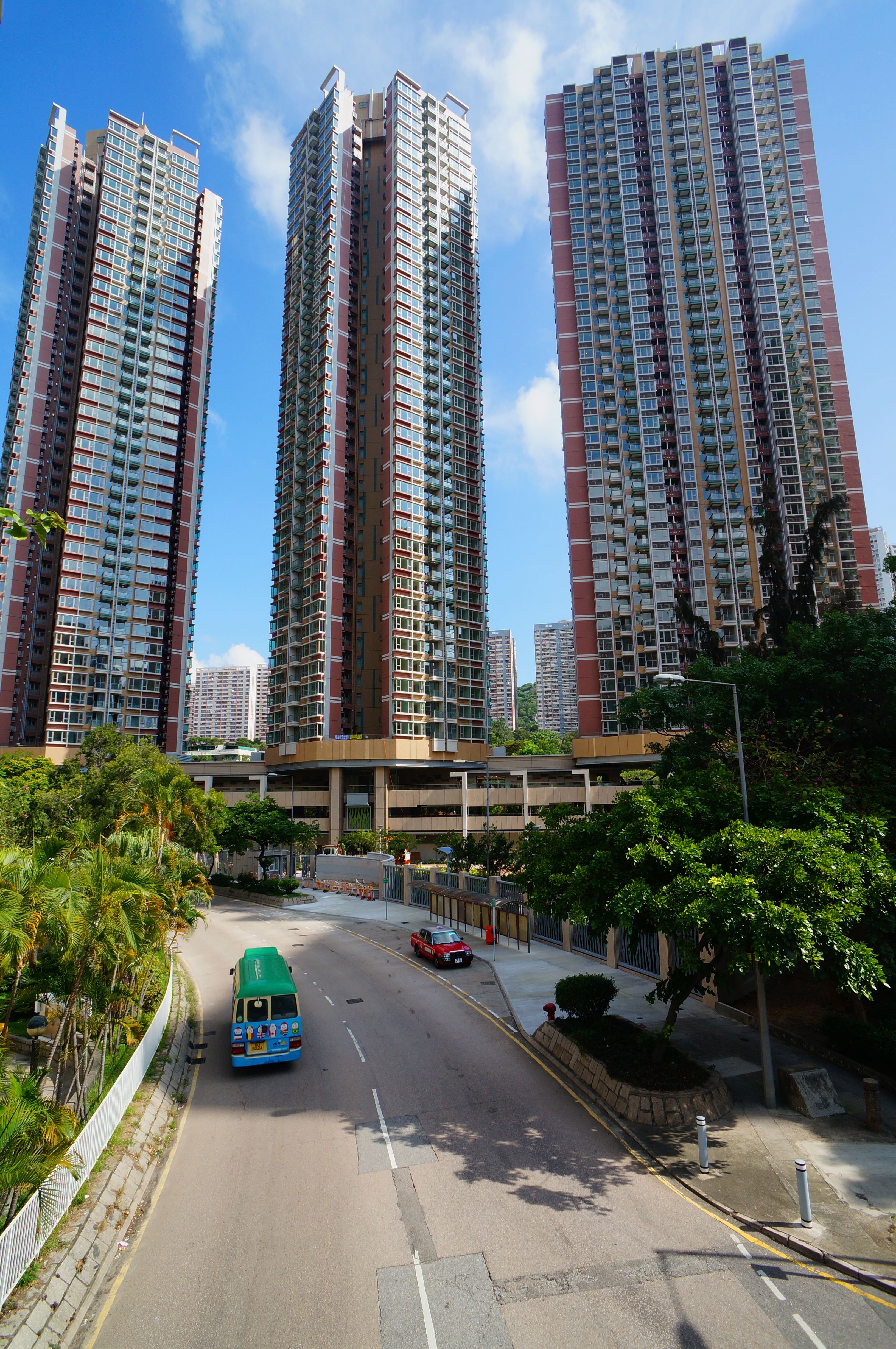 Greenview Villa under construction.